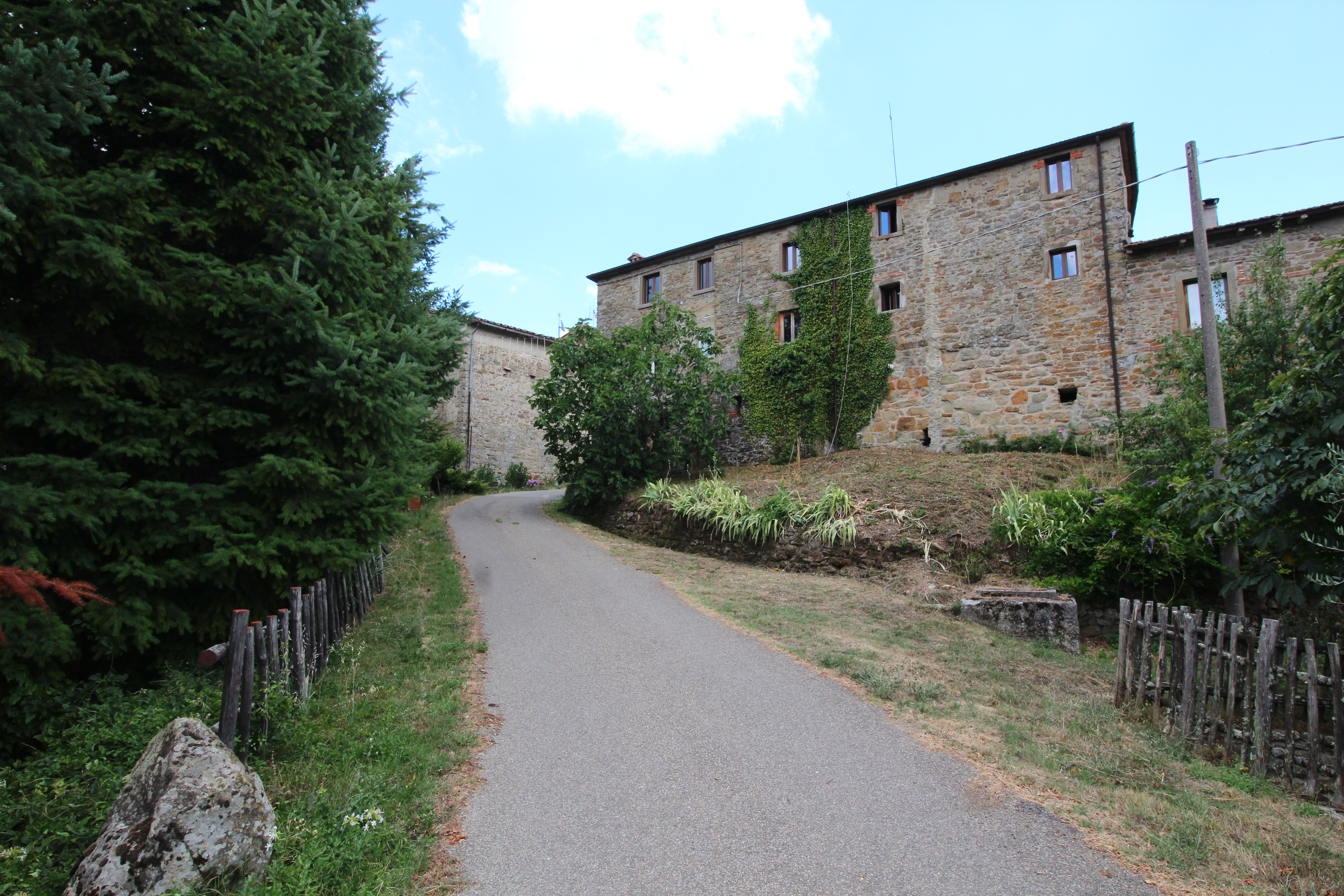 Ornina (also Ornina Alta or Ornina Chiesa), village in the territory of Castel Focognano, Casentino, Province of Arezzo, Tuscany, Italy